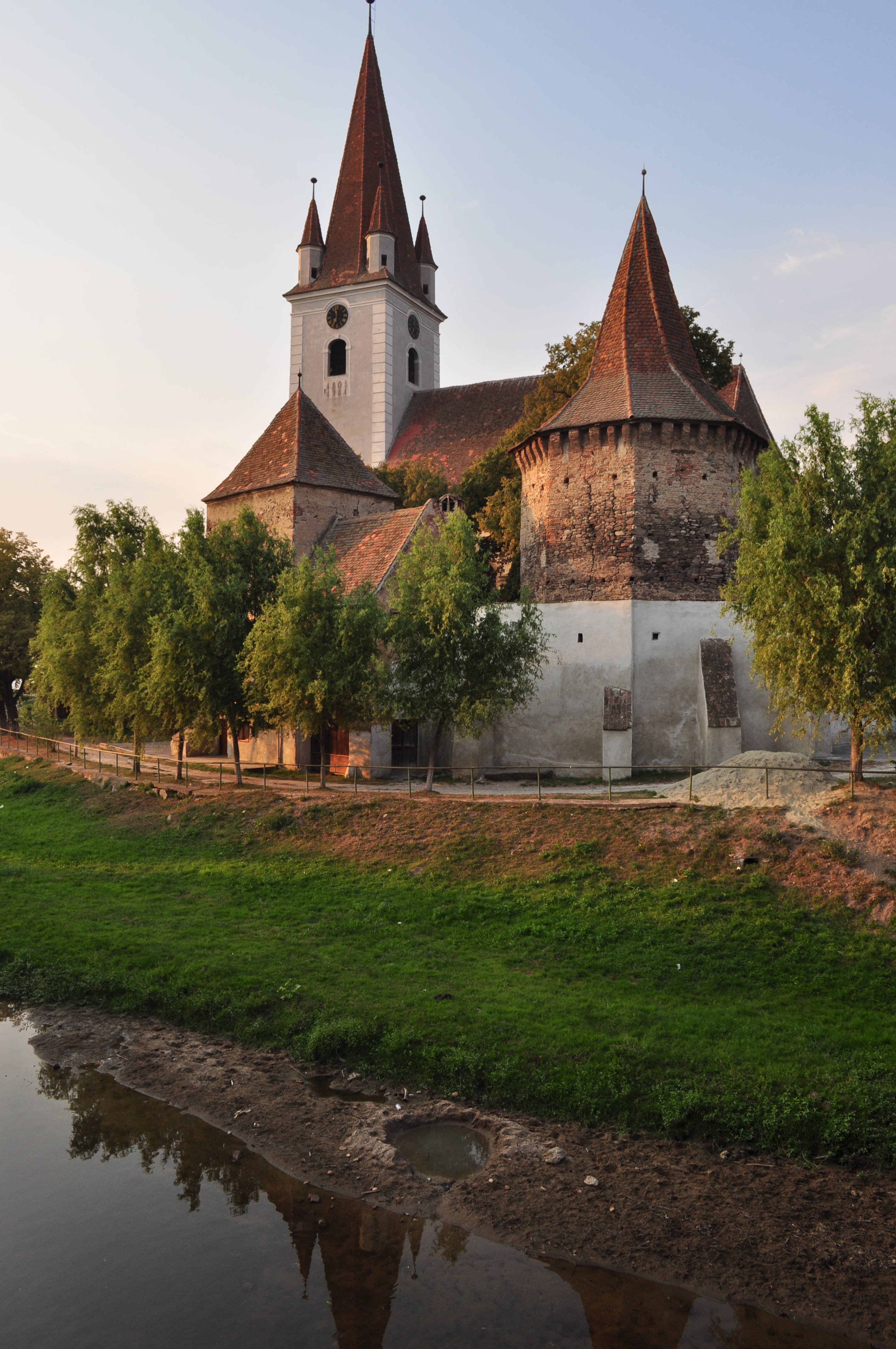 Saxon fortified church in Cristian, Sibiu countyRomână: Biserica evanghelică fortificată din Cristian, județul Sibiu